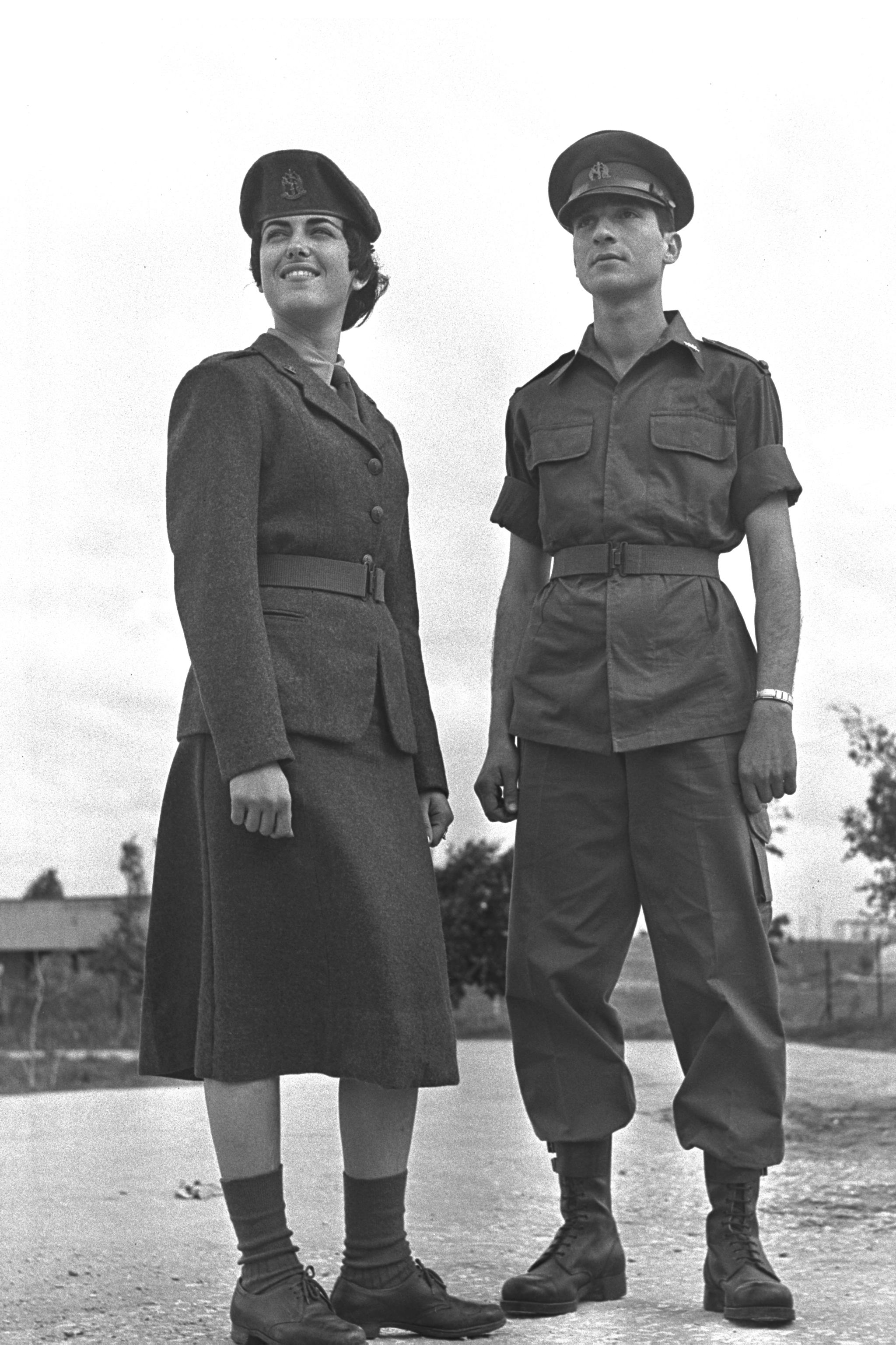 New military uniform for the IDF in 1956. Winter uniform for the woman, summer uniform for man